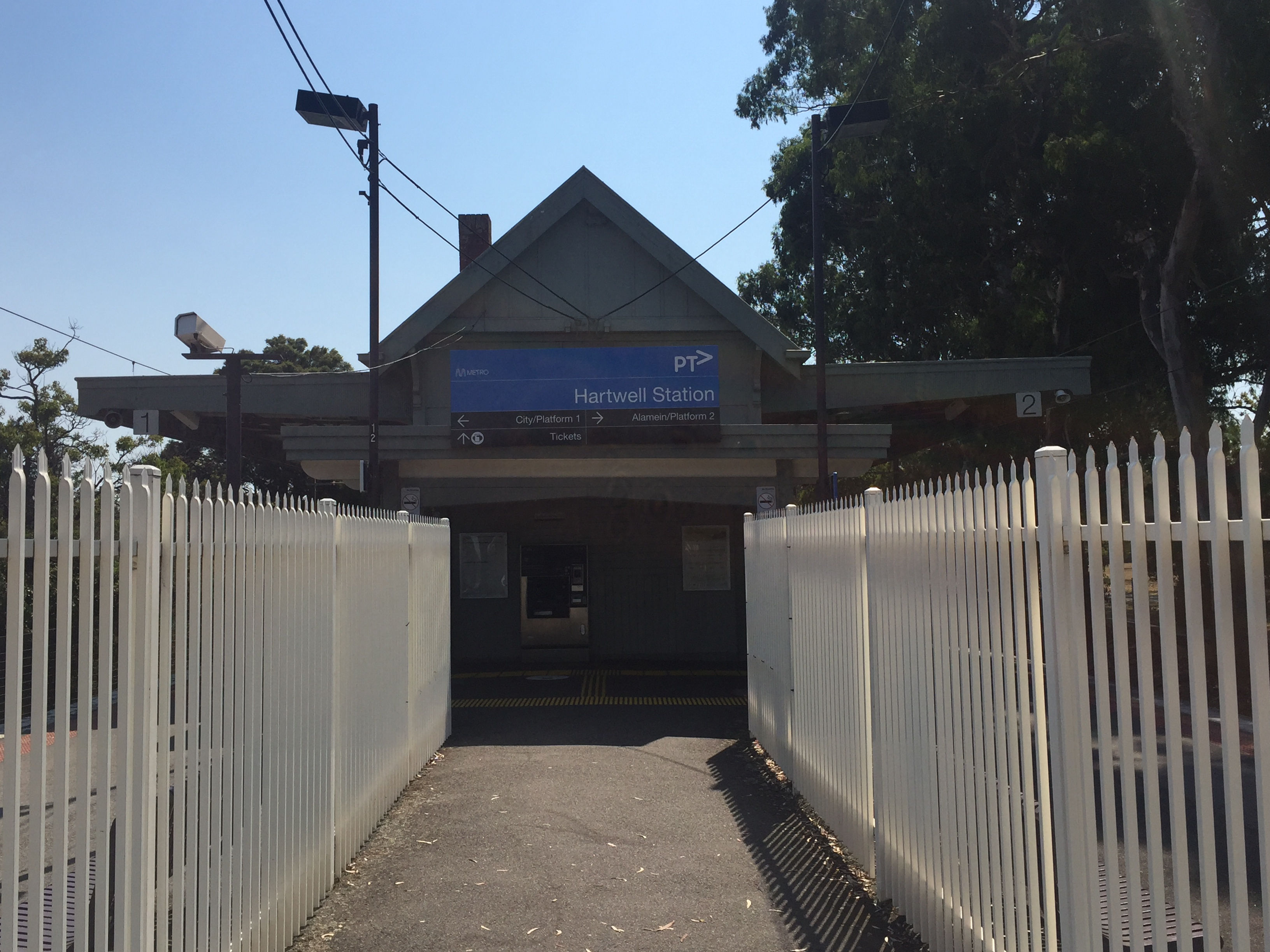 Entrance to Hartwell railway station in March 2019